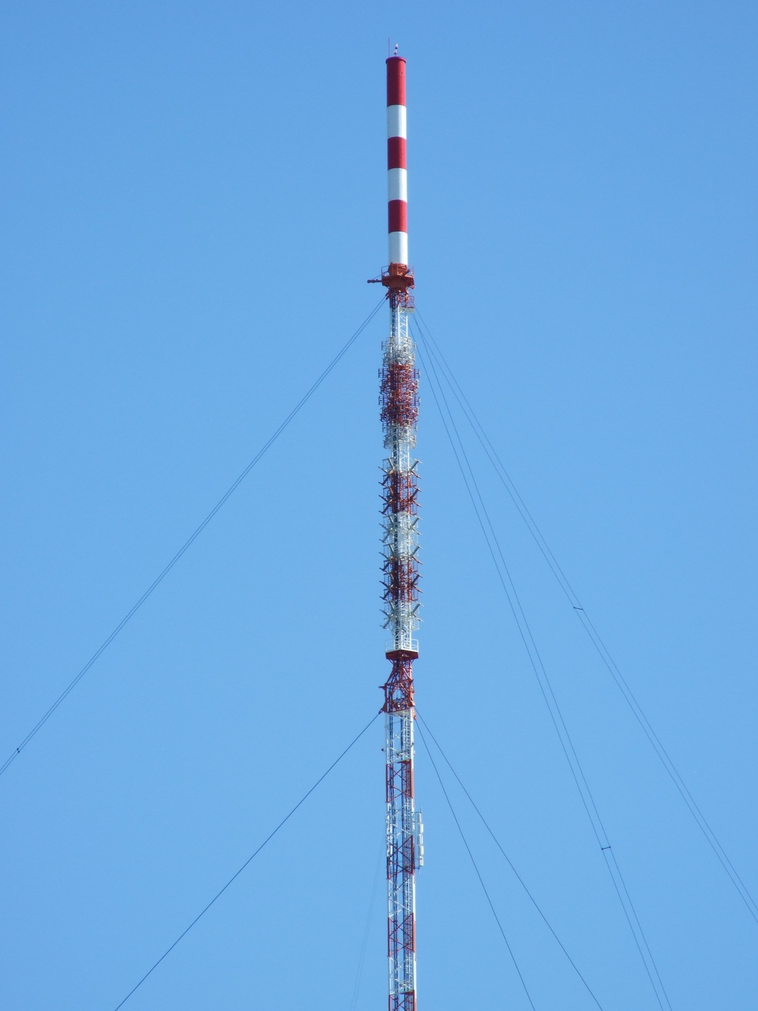 Transmitter Krašov - antenna system